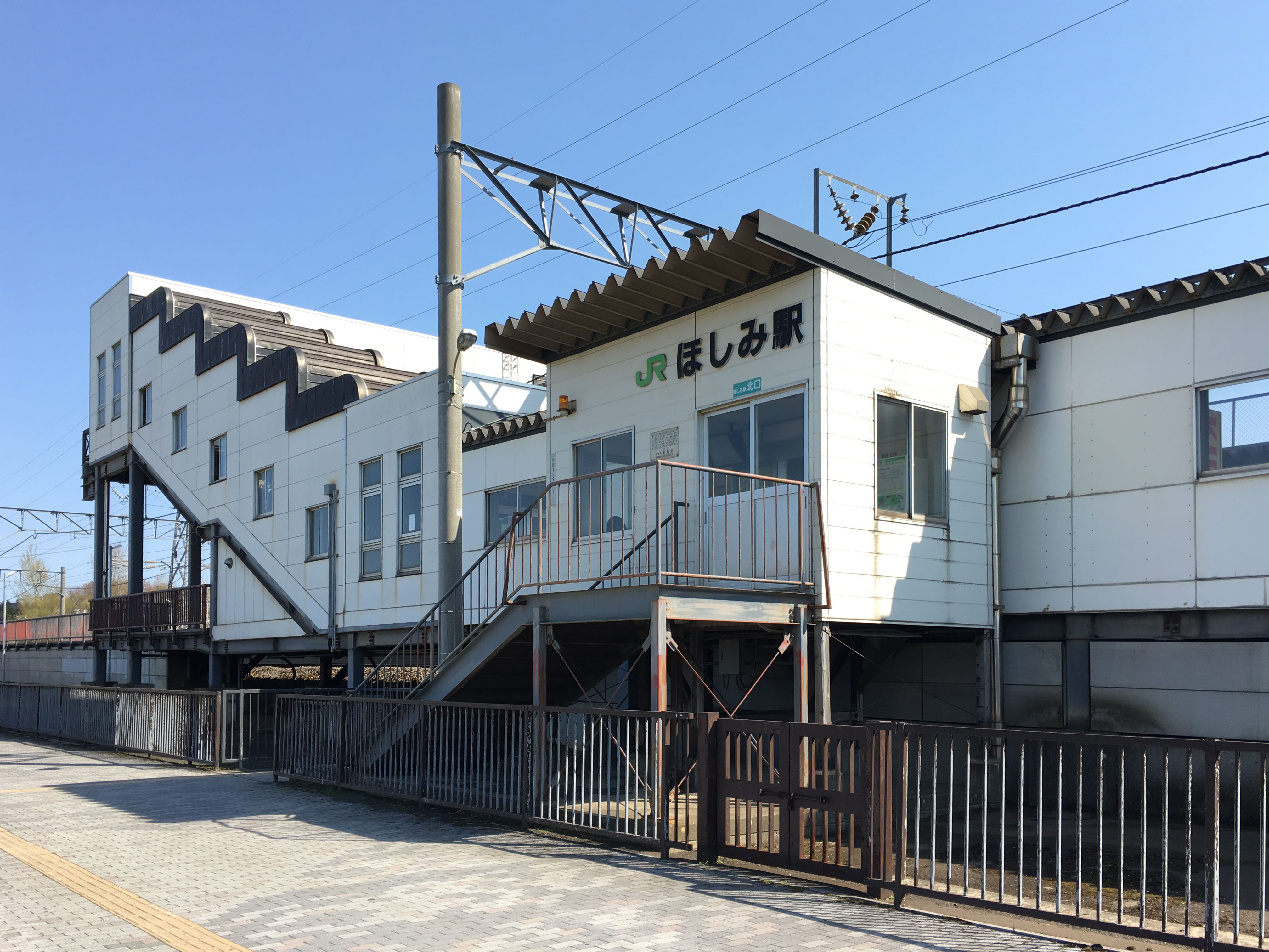 The north entrance to Hoshino Station in Sapporo, Hokkaido, Japan